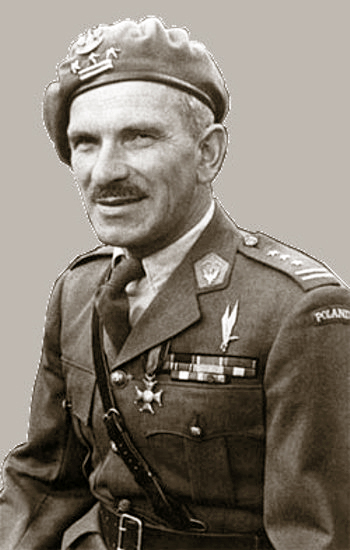 Stanisław Sosabowski, commander of the Polish 1st Independent Parachute Brigade Sosabowski is wearing a gala uniform based on English WWII officers uniforms and is wearing colonels insignia